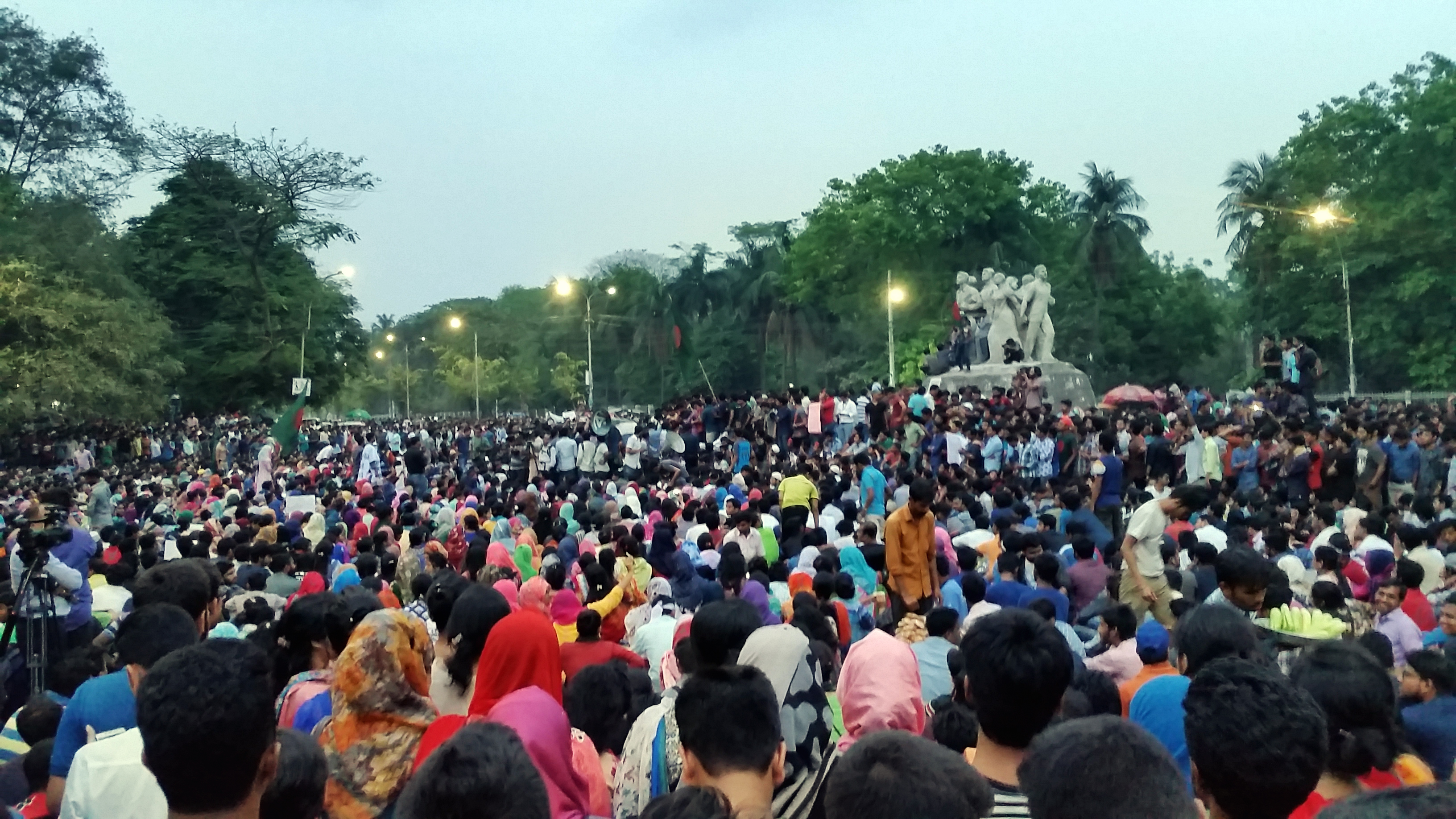 Students gather at the University of Dhaka demanding reform of the quota system in government jobs.